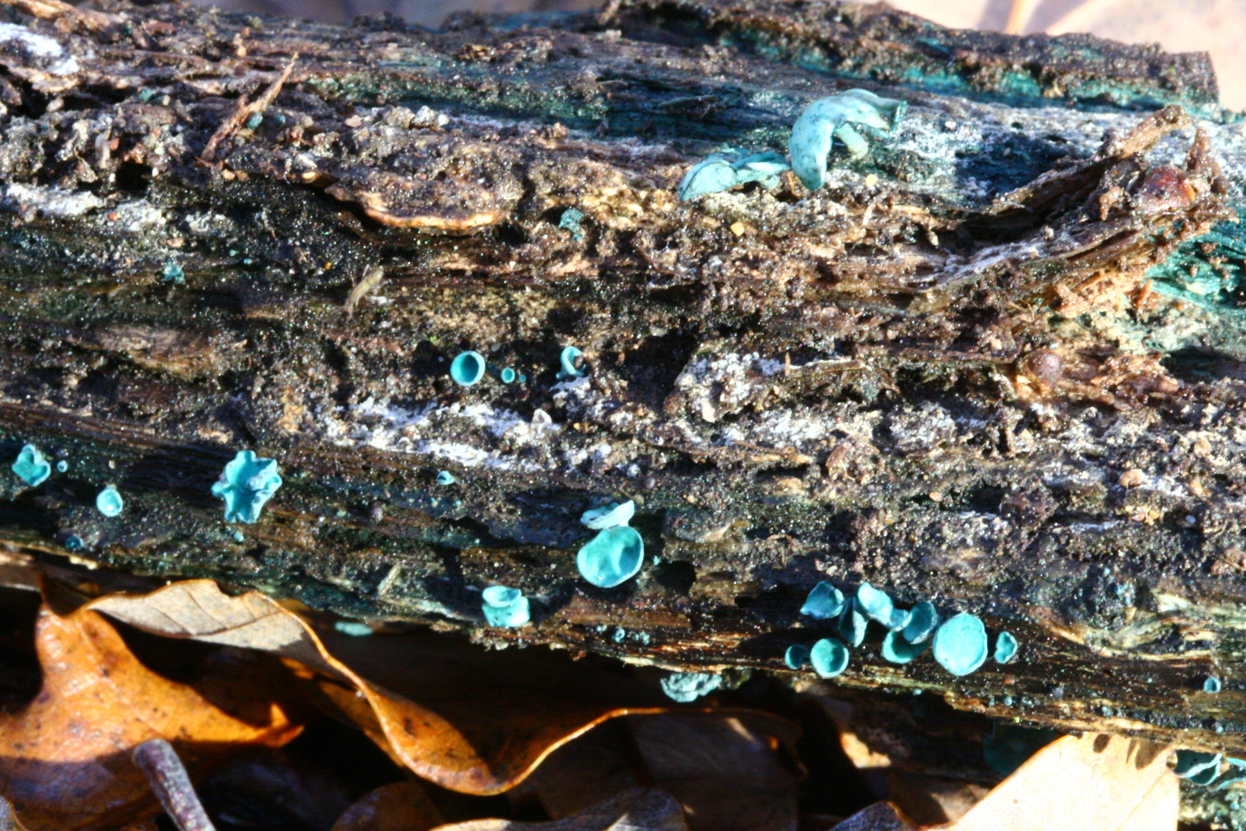 Chlorociboria aeruginascens in a forest near Sénart, France.